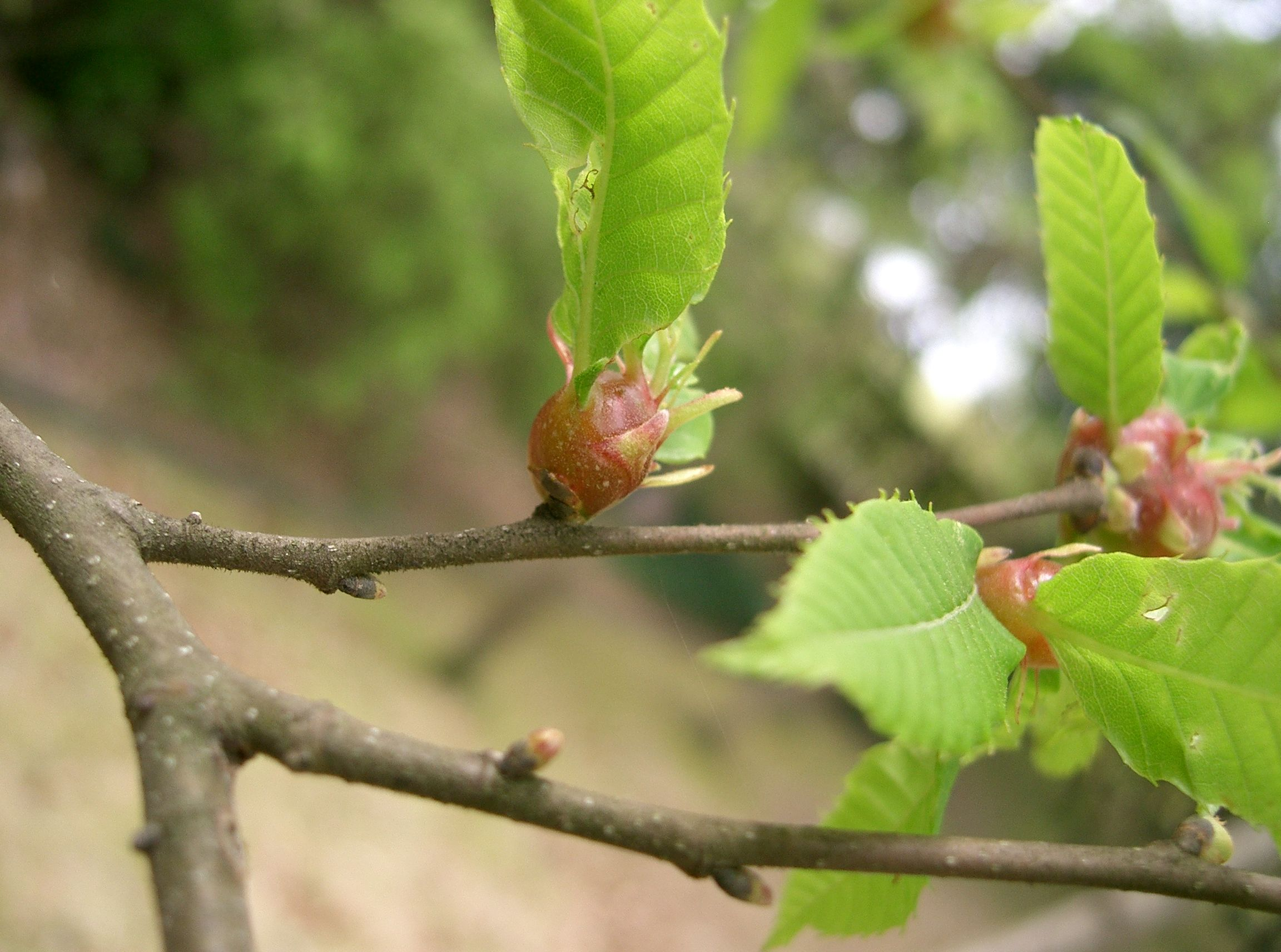 Castanea crenata (with Gall)